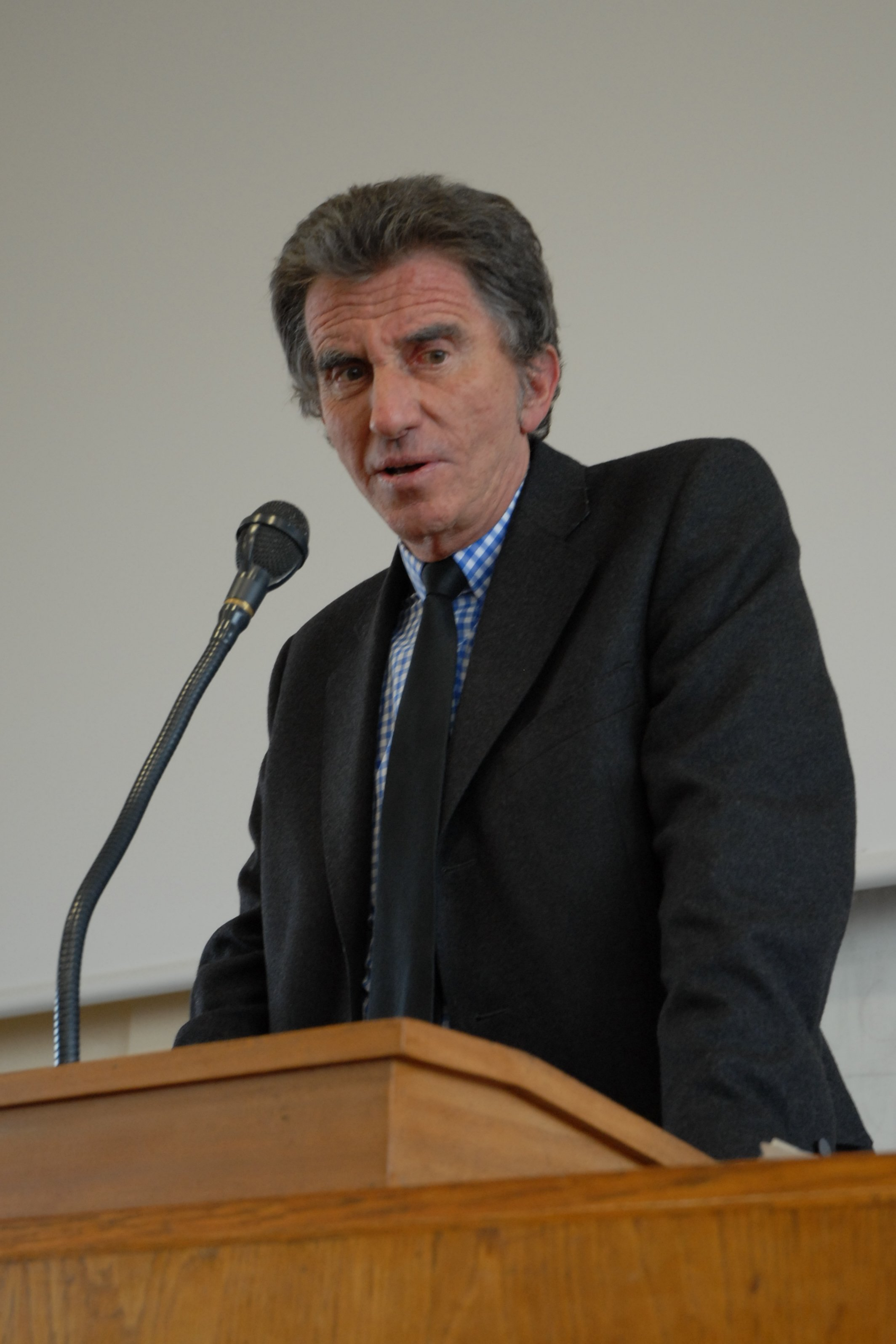 Jack Lang, French socialist politician, MP and former Minister giving a talk at IEP Toulouse supporting the candidacy of Ségolène Royal for the French presidential election.